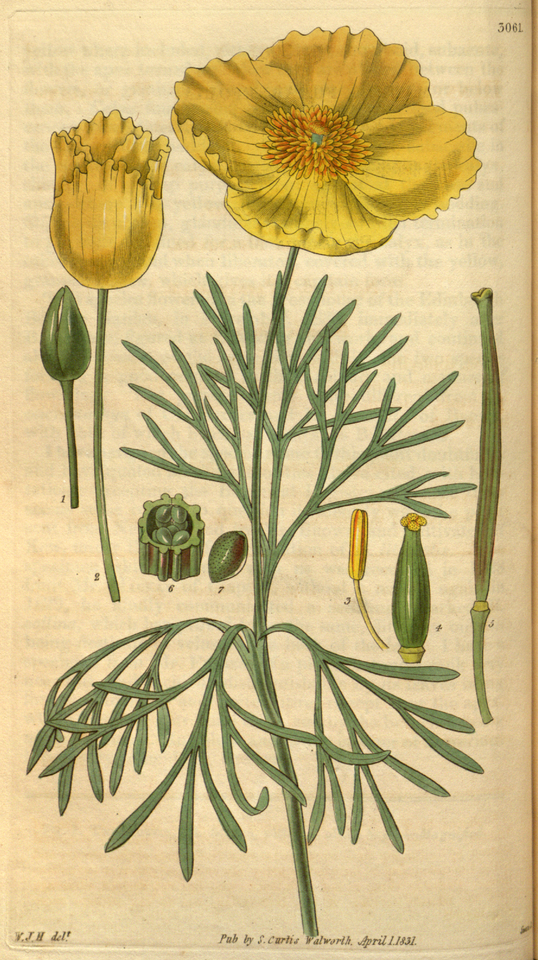 This is a plate from Curtis's Botanical Magazine, Volume 58.